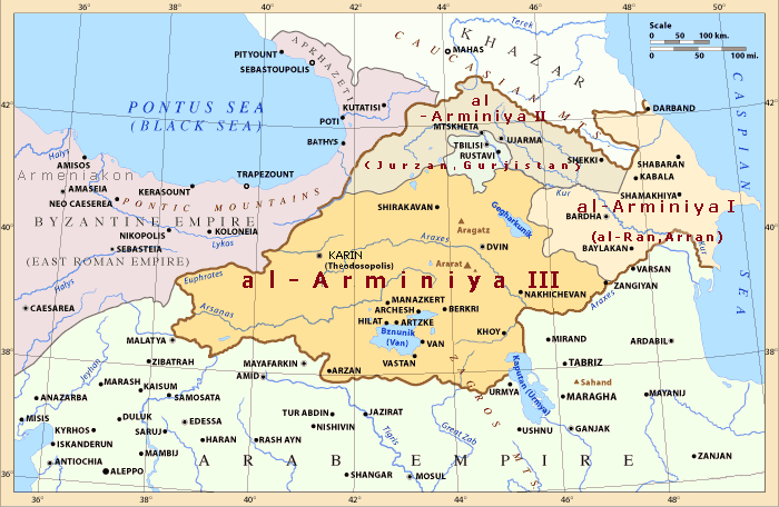 Emirate of Armenia (Arminiya) in 750-885. From "Armenia: A Historical Atlas" by R. Hewsen, p. 106